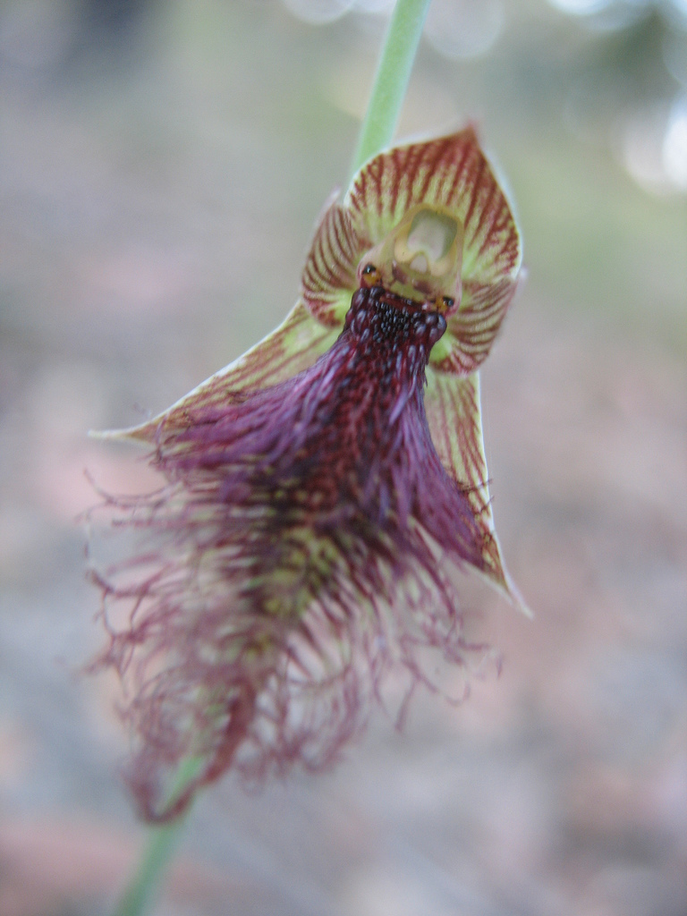 Calochilus robertsonii. Found in Georges River Gorge near Campbelltown spring time.